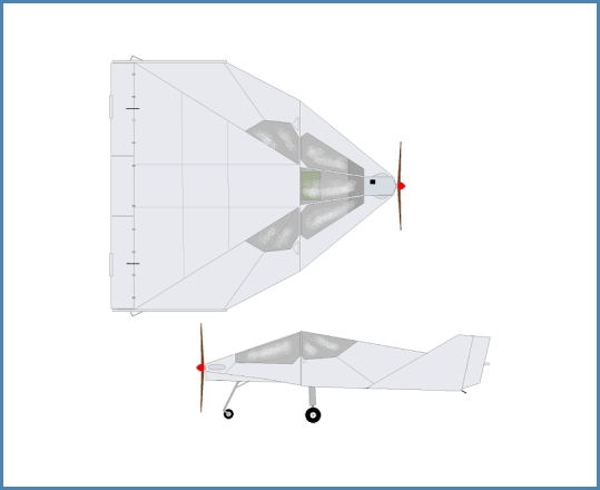 Wainfan Facettomobile